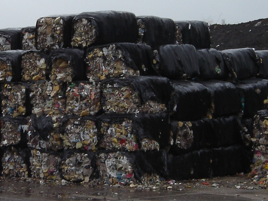 Picture of baled RDF-fluff, picture taken at GP Groot in Heiloo, Netherlands.